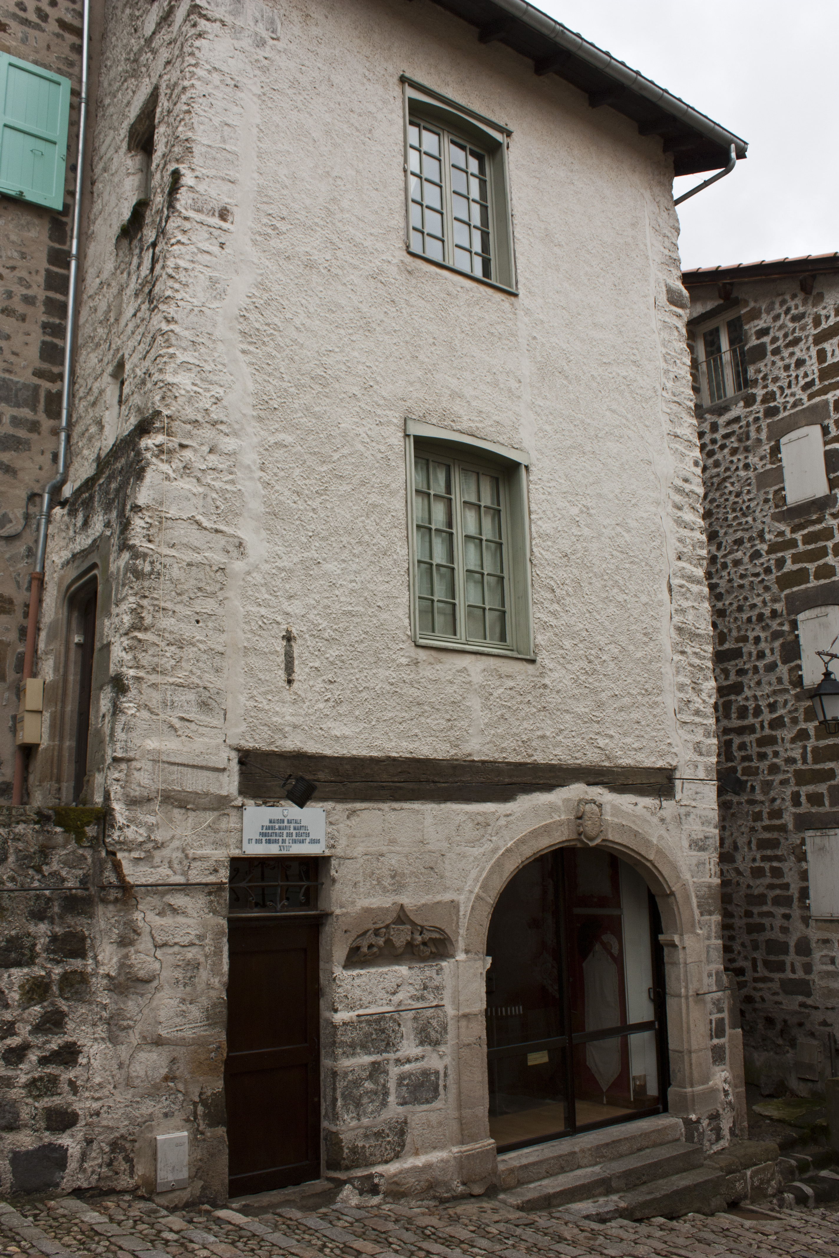 Birth house of Anne-Marie Martel, founder of the Sisters of the Child Jesus.